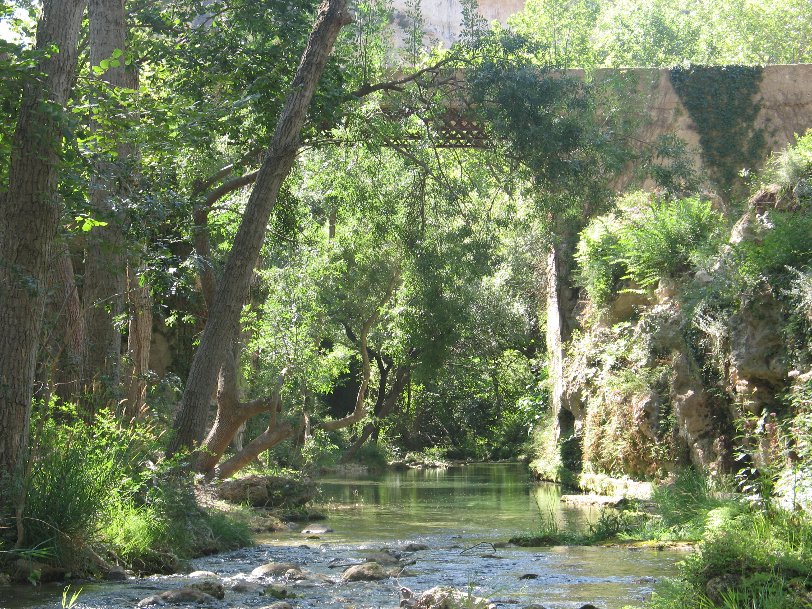 Photo taken near the Font de Sant Pere in the town of La Senia, Tarragona, Spain.